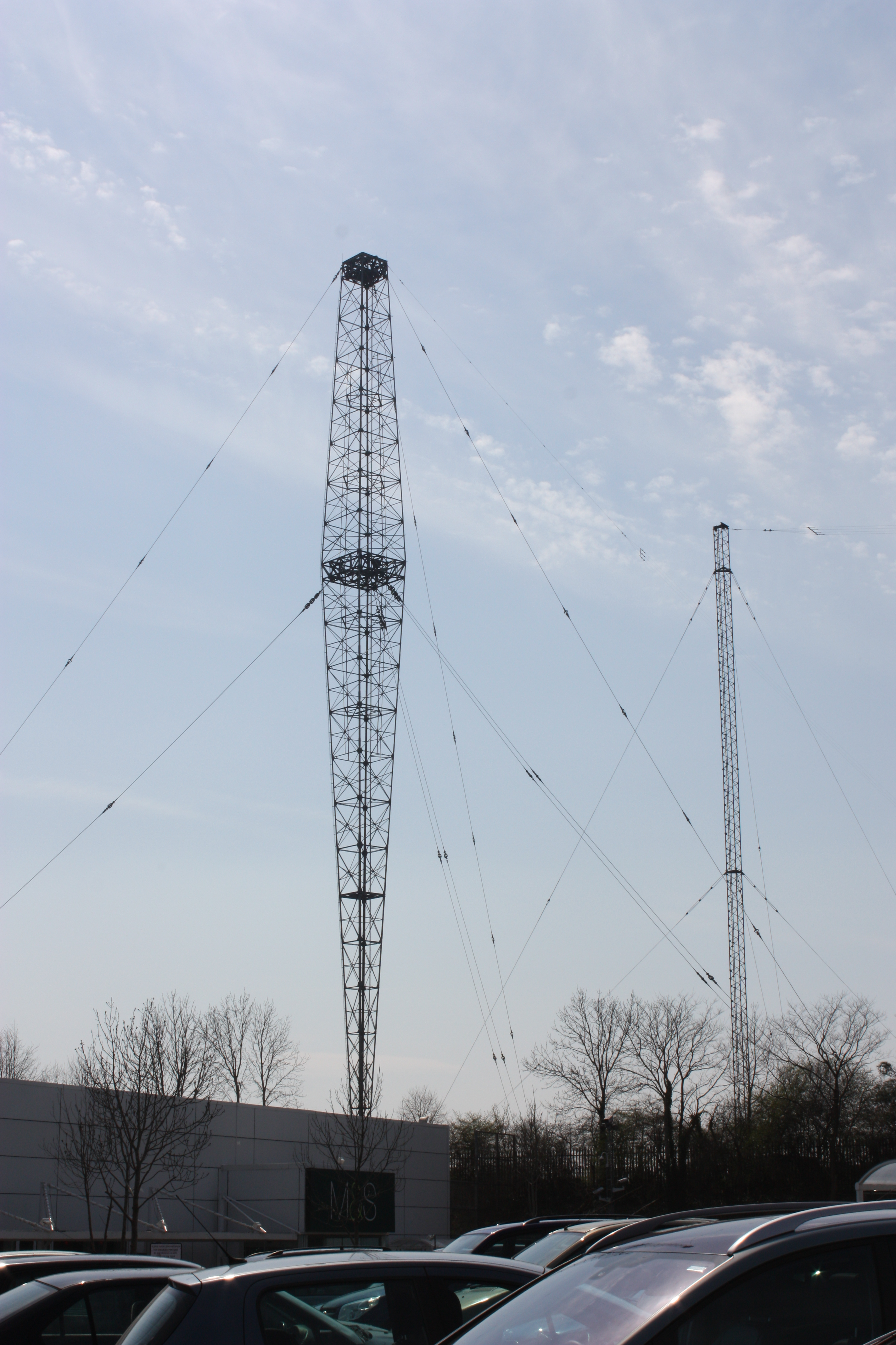 Lisnagarvey radio transmitter mast, Lisnagarvey, County Antrim, Northern Ireland, April 2010 (viewed from Sprucefield shopping centre)